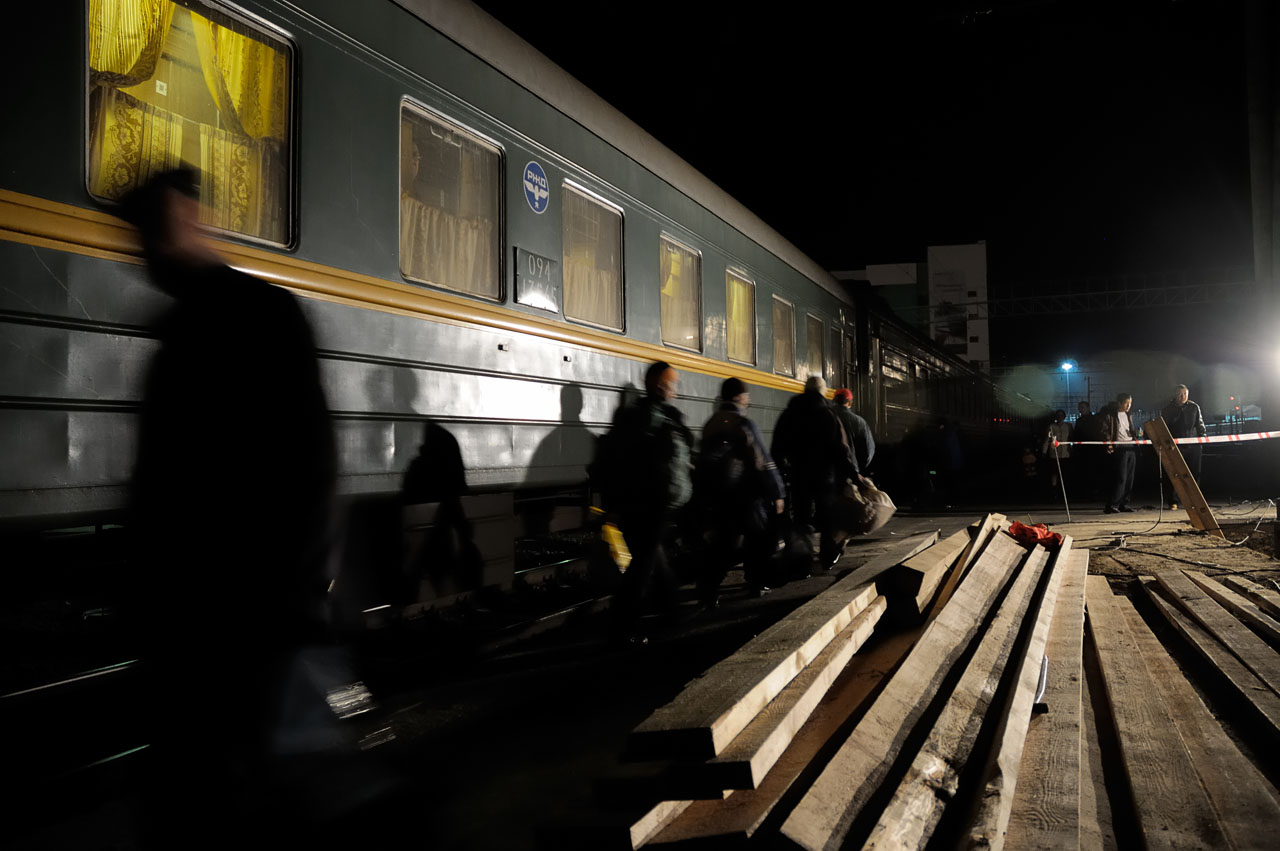 Night stop of the Transsiberian at Novosibirsk.